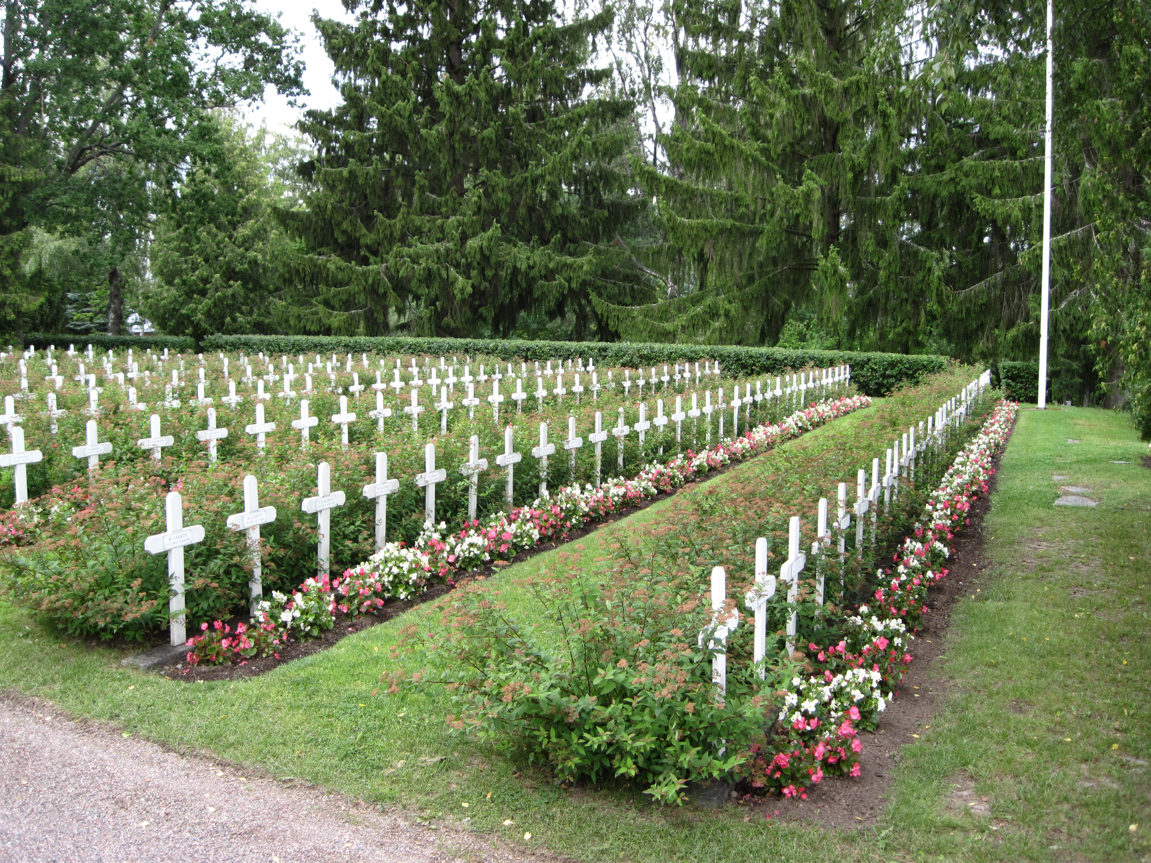 Military cemetary at church in Somero, Finland